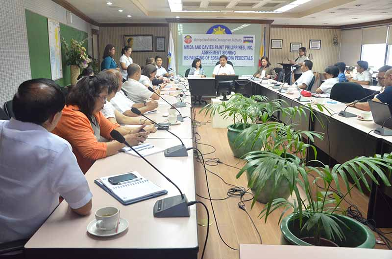 Metro Manial Council Meeting on June 27, 2016 at the Makati City Room for the MMDA (Metropolitan Manila Development Authority) and Davies Paint Philippines, Inc. Agreement Signing - Re-painting of EDSA Buendia Pedestals